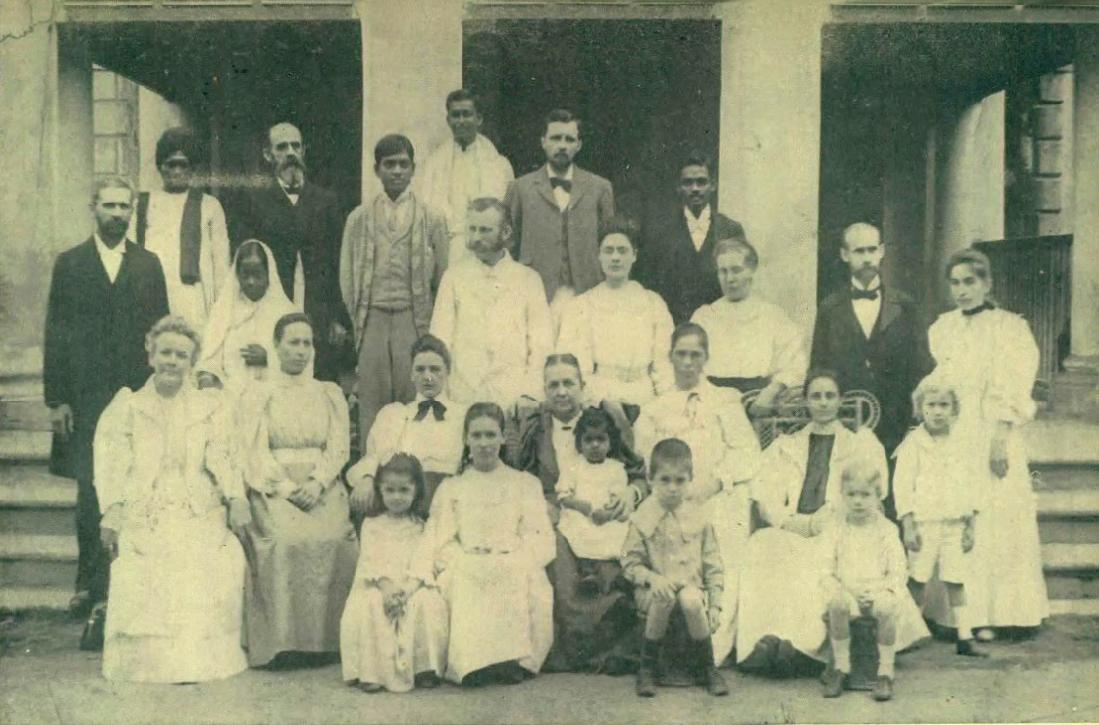 The Mission Family in Calcutta, India, 1898. Front Row, Seated: Mrs. O. G. Place; Miss Samantha Whiteis; May Taylor (Mrs. Quantock); in Front of Her, Dorothy Spicer (Mrs Andrews); Ethel Robinson (Mrs. Chilson); Mrs. D. A. Robinson; in Her Lap, Mary Robinson, Her Adopted Child; Mrs. W. A. Spicer; in Front of Her. Will H. Spicer ( Now M. D.); Mrs. Ellory Robinson and Her Two Children at Her Left; Second Row. Standing, Ellory Robinson; Kheroda, Native Helper; O. G. Place, M. D.; Maggie Green (Mrs. Richardson); Georgia Burrus (Mrs .Burgess); G. P. Edwards. Mrs. C. P. Edwards; Back Row, Standing, a Servant, Unidentified; D. A. Robinson; Mono Mitter; Kreepananda Biswas; W. A. Spicer, Nyan Mitter